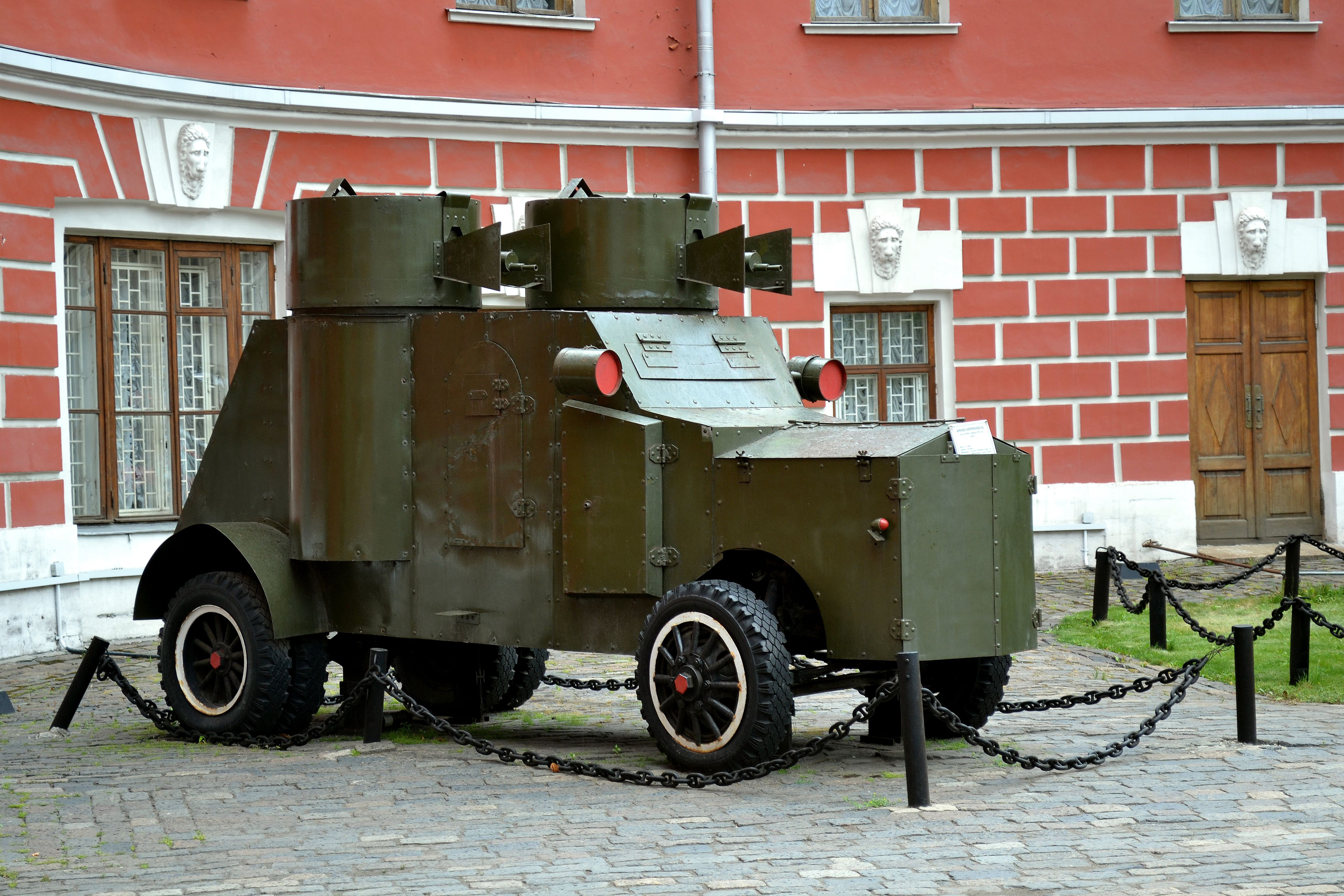 A Fiat-Izhorsky armoured car (a replica probably built in 1967). The State Central Museum of Contemporary History of Russia in Moscow.